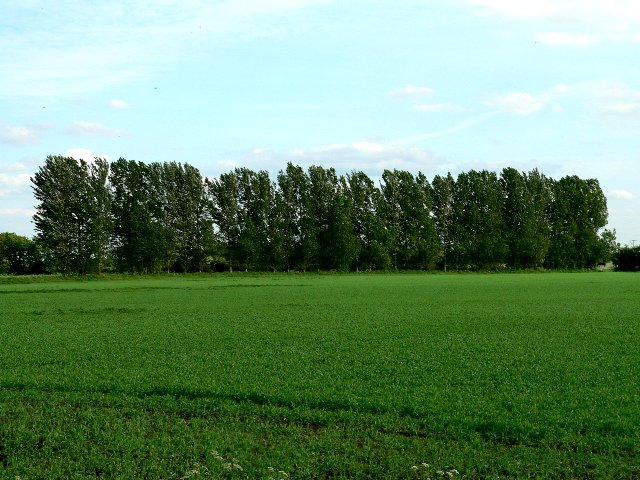 Windbreak, Holme-on-Spalding-Moor, East Riding of Yorkshire, England.